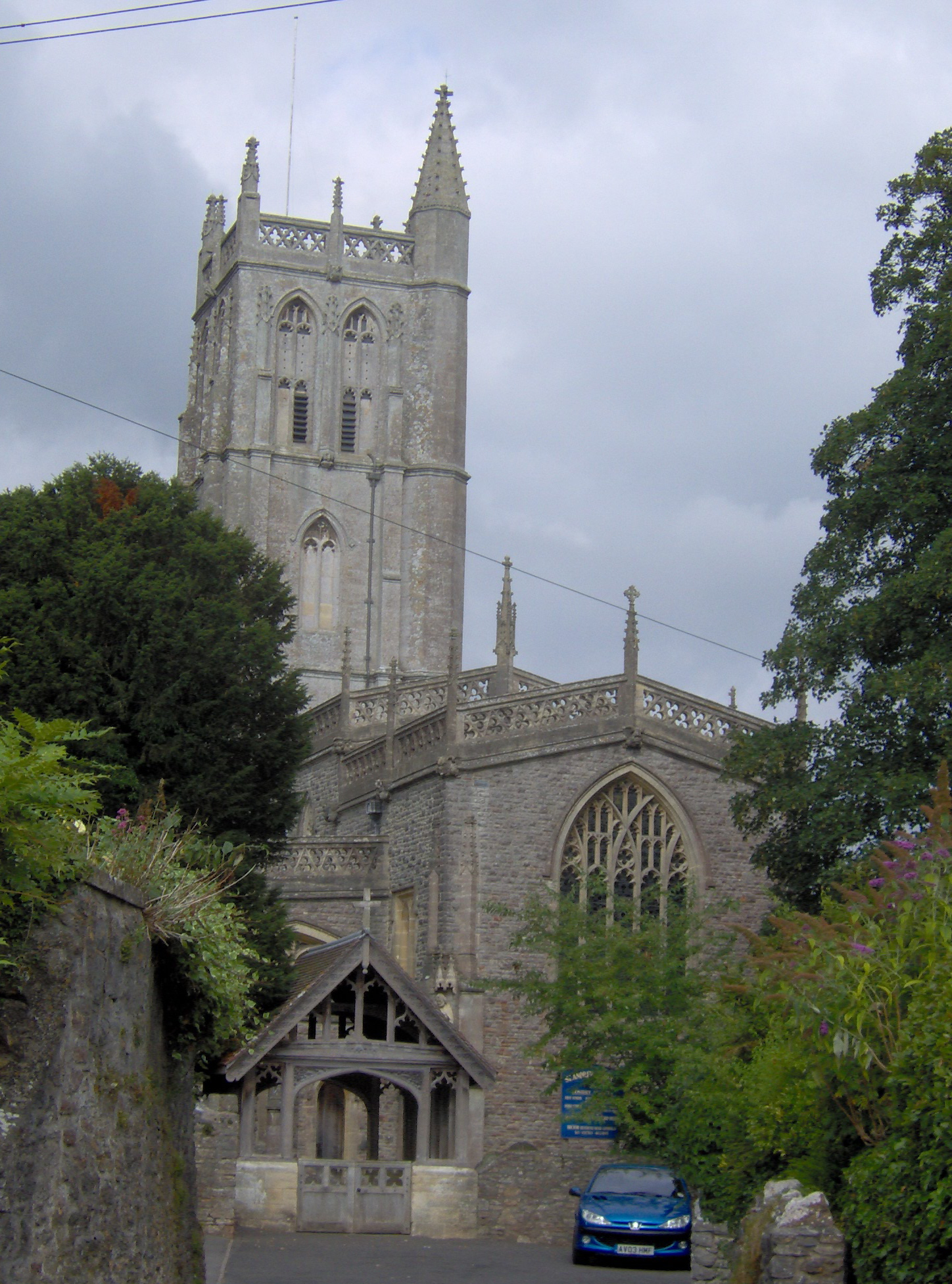 Blagdon Church. Taken by Rod Ward 15.08.06